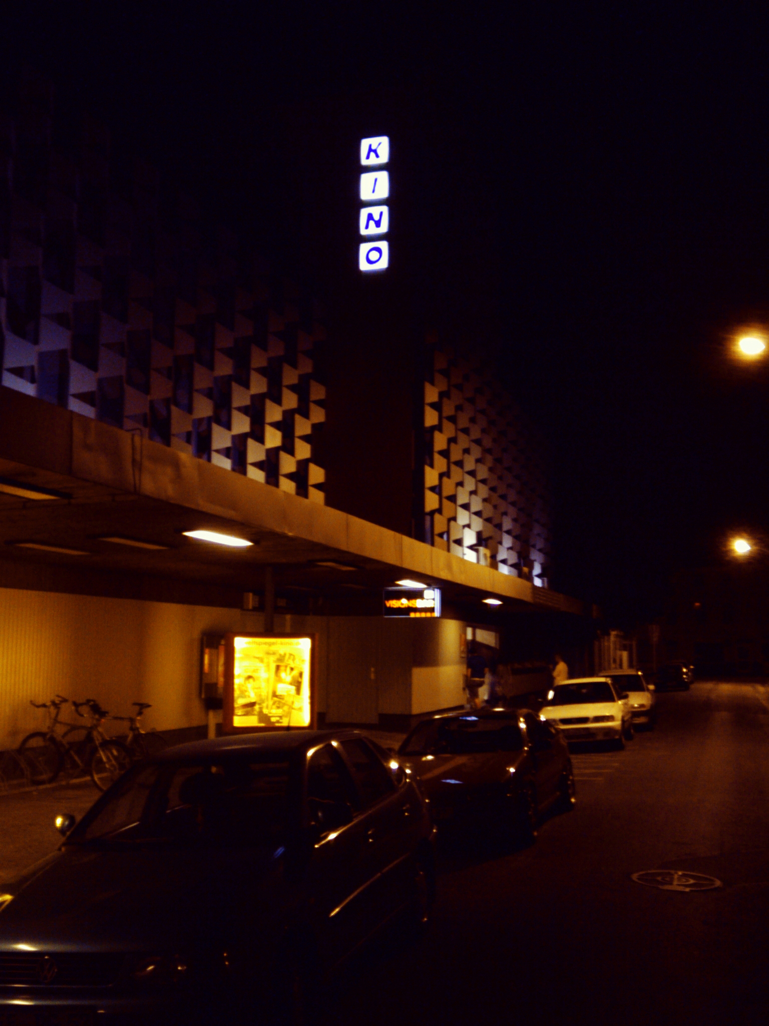 Cinema "Weltspiegel" which was built in 1912